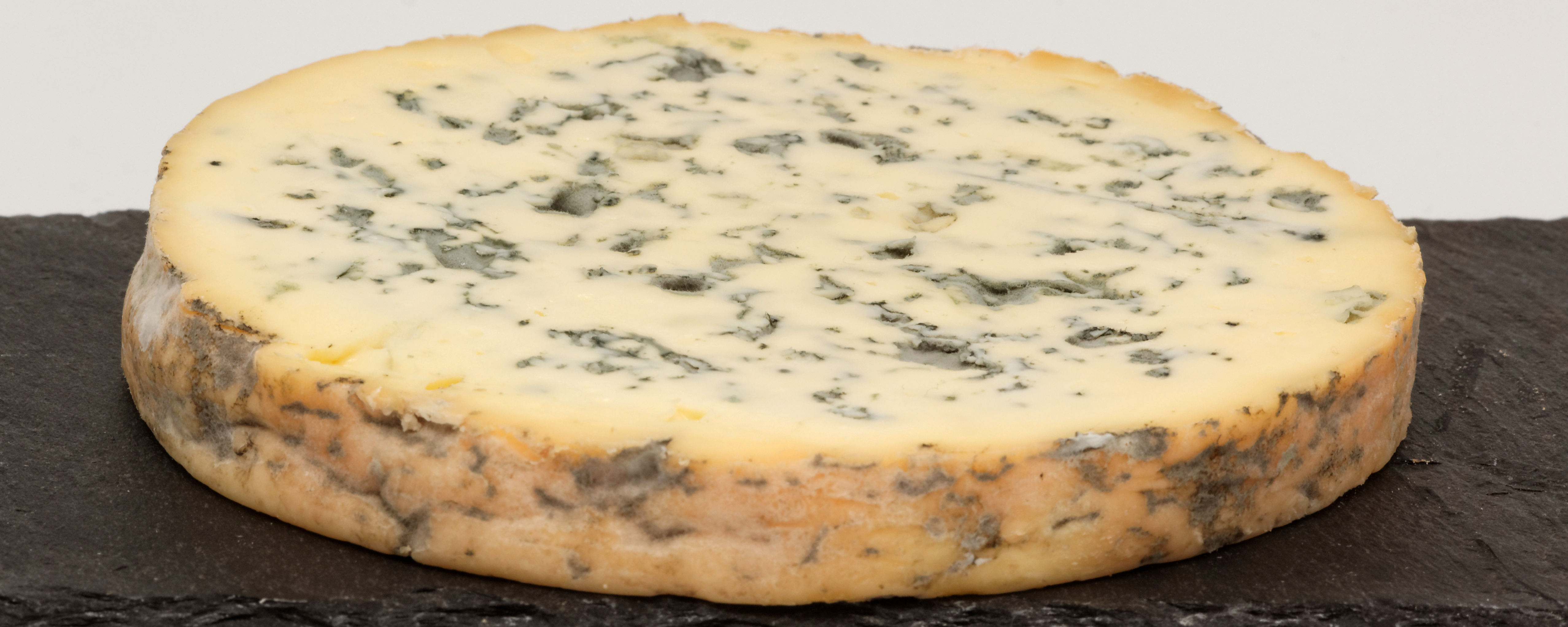 Fourme d'Ambert (cow's milk cheese)